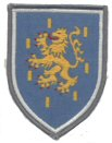 coat of arms of the Bundeswehr (Armed Forces of the Federal Republic of Germany). → Remarks on naming and categorization scheme